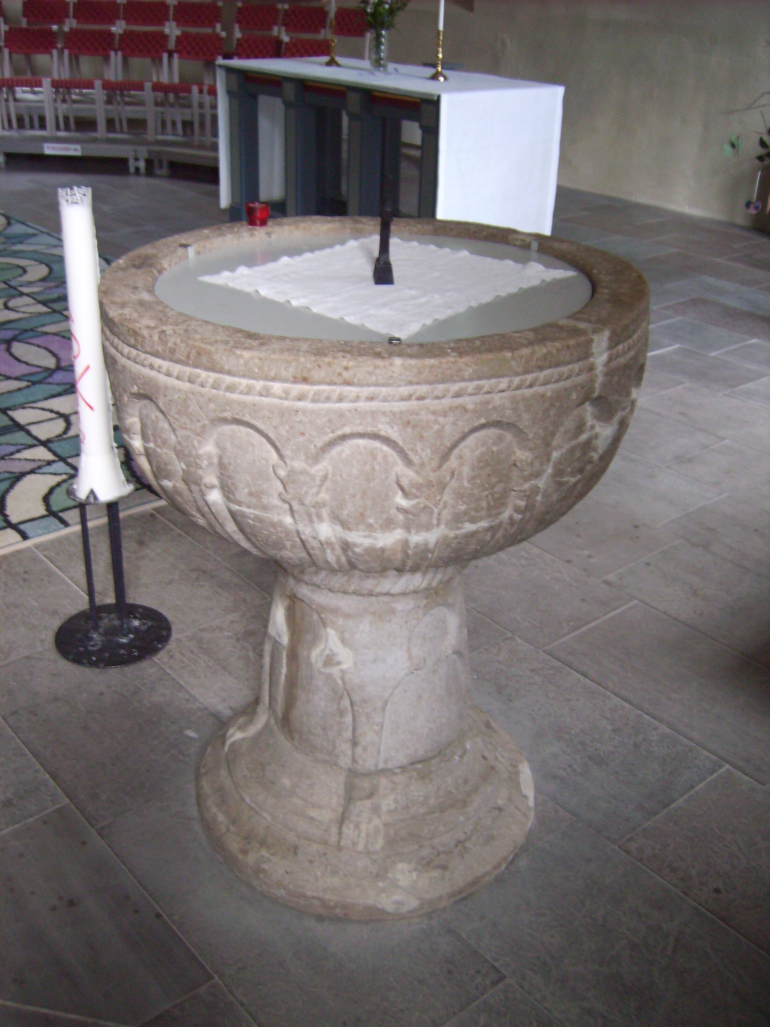 Styrstad church, outside Norrköping. Diocese of Linköping.